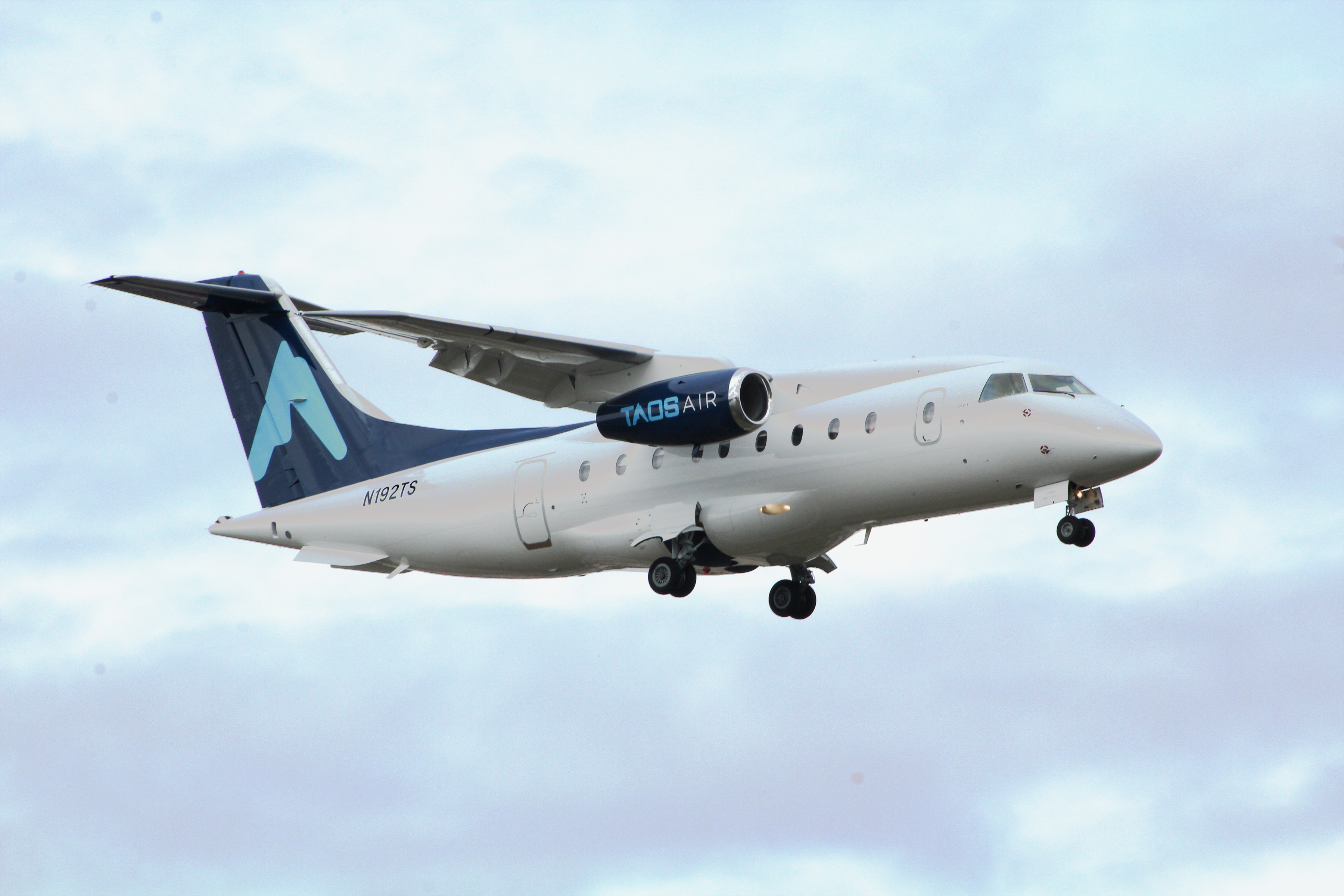 Fairchild Dornier 328JET (328-300), N192TS, c/n 3214, in Taos Air livery, operating as Advanced Air flight 92, on approach to Dallas Love Field (DAL/KDAL), Dallas, Texas, United States, 27 December 2019